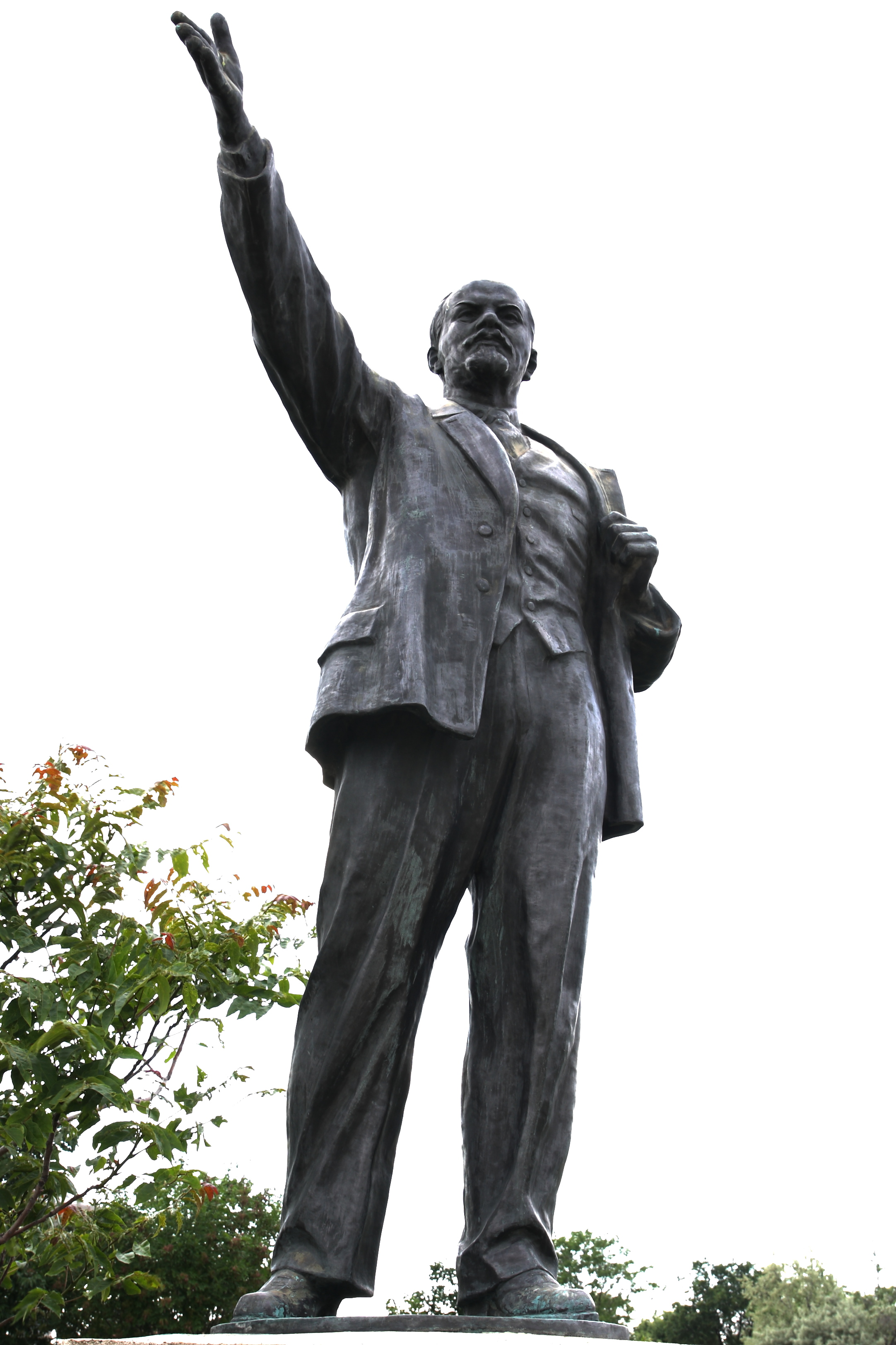 Statue of Lenin in Monument Park in Budapest